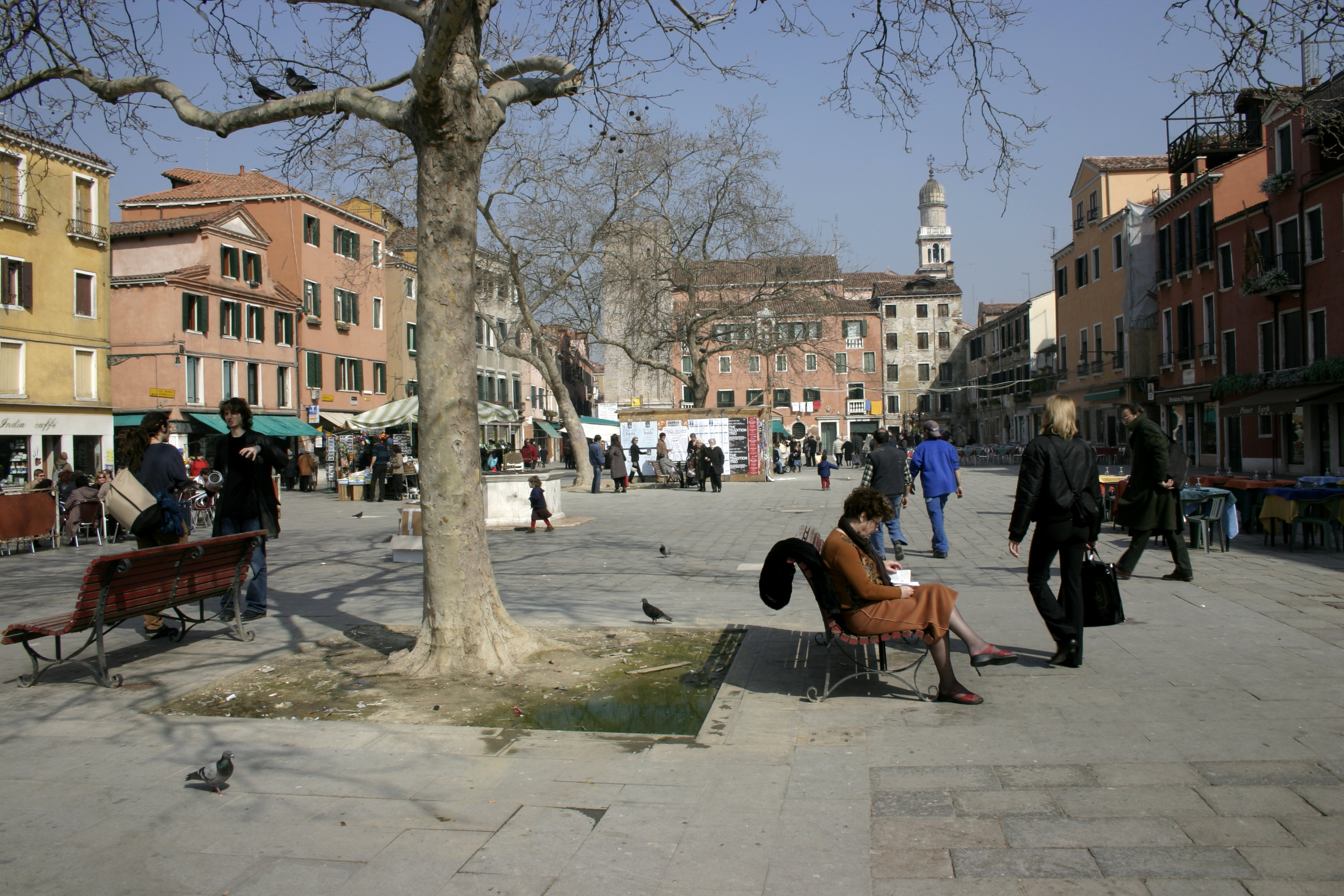 Venice - St. Margherita's Square)